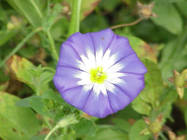 Species: Convolvulus tricolor Family: Convolvulaceae Image No. 3